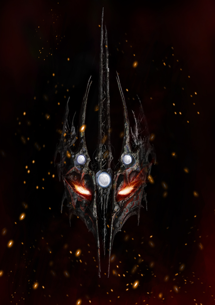 Morgoth by SpentaMainyu .